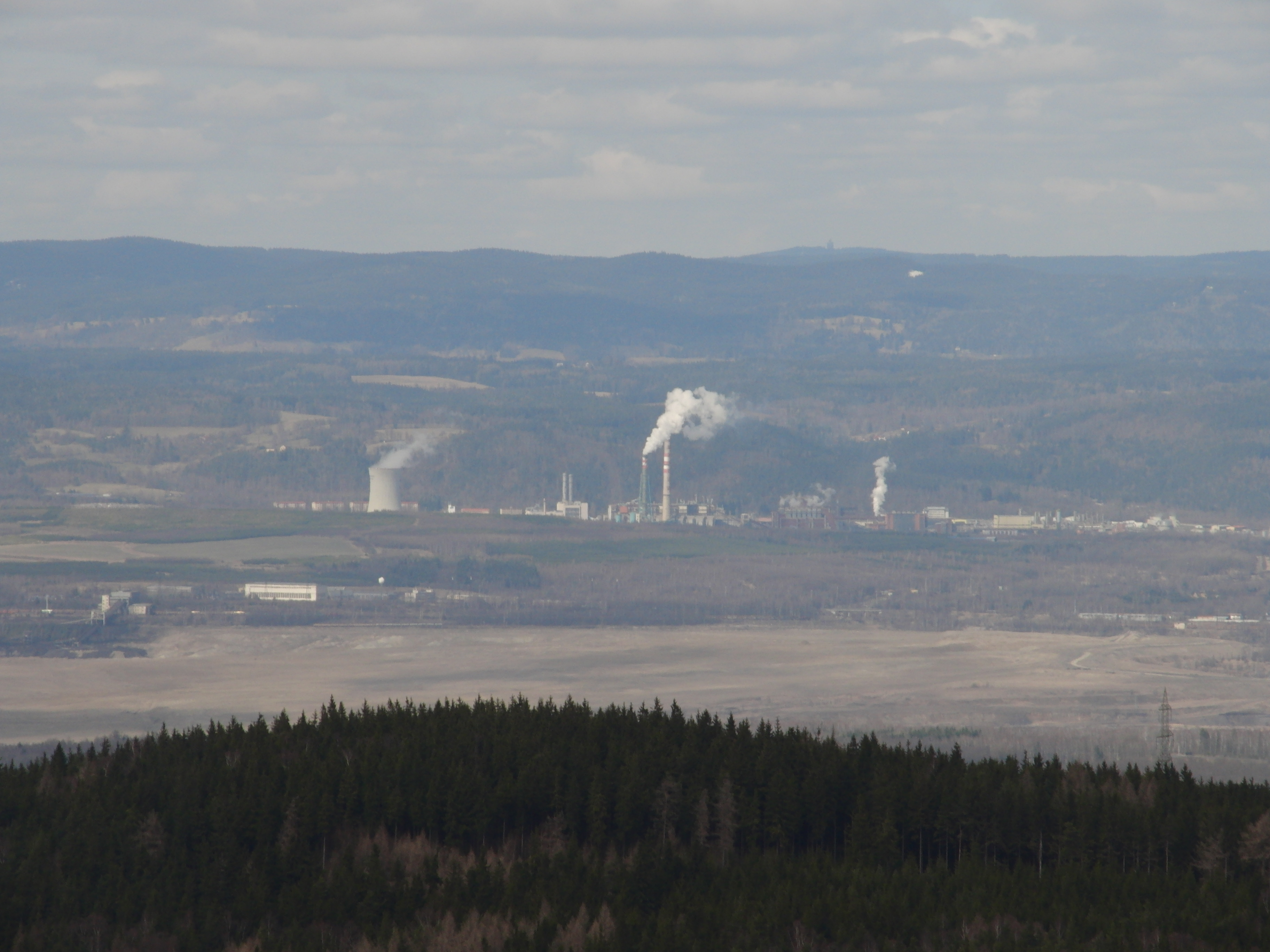 view of Vřesová from Krudum (Chrudim) observation tower in Slavkovský les, Ore Mountains in the back